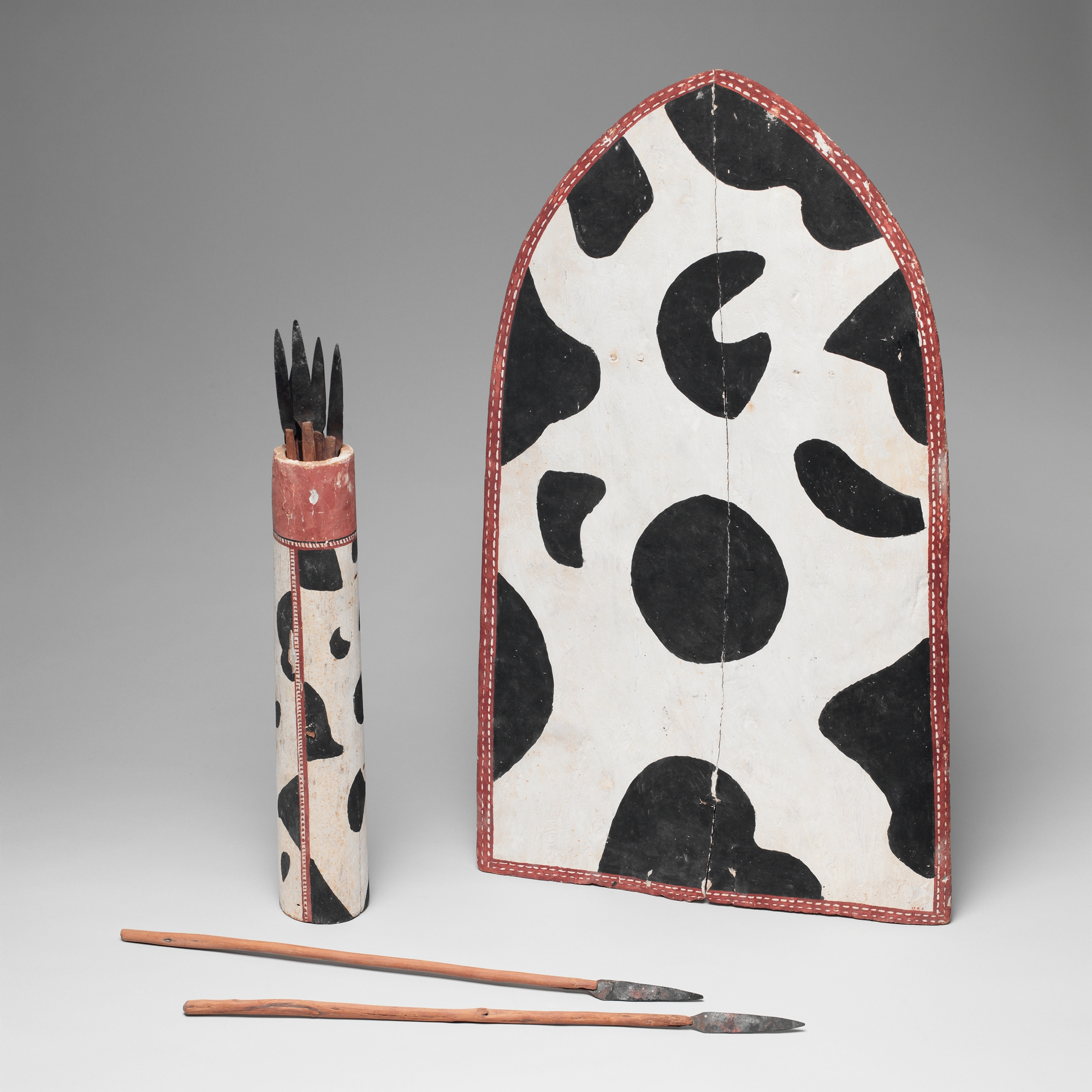 Wooden model from Asyut, Egypt depicting a shield and spears, ca. 1981–1802 BC.